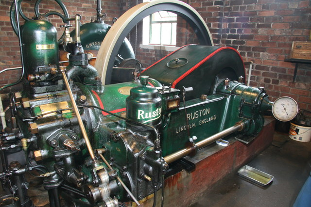 Dogdyke Pumping station